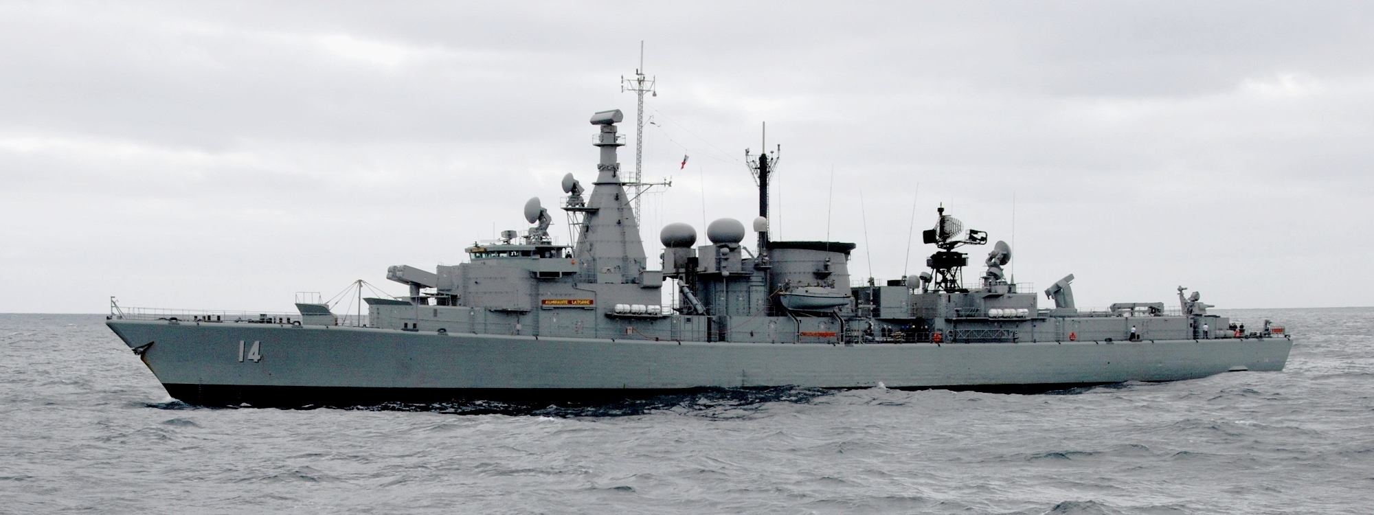 Chilean ship Almirante Latorre (FFG 14) sails forward while members of its vessel boarding search and seizure (VBSS) team make an approach to USS Pearl Harbor (LSD 52) and prepare to engage in VBSS exercises during UNITAS 48-07 Pacific phase June 25, 200 7, while under way in the Pacific Ocean. The multinational naval exercise develops and tests the participating navies' capabilities to respond to a wide variety of maritime missions as a unified force. (U.S. Navy photo by Mass Communication Specialist 3 rd Class Damien Horvath) (Released)